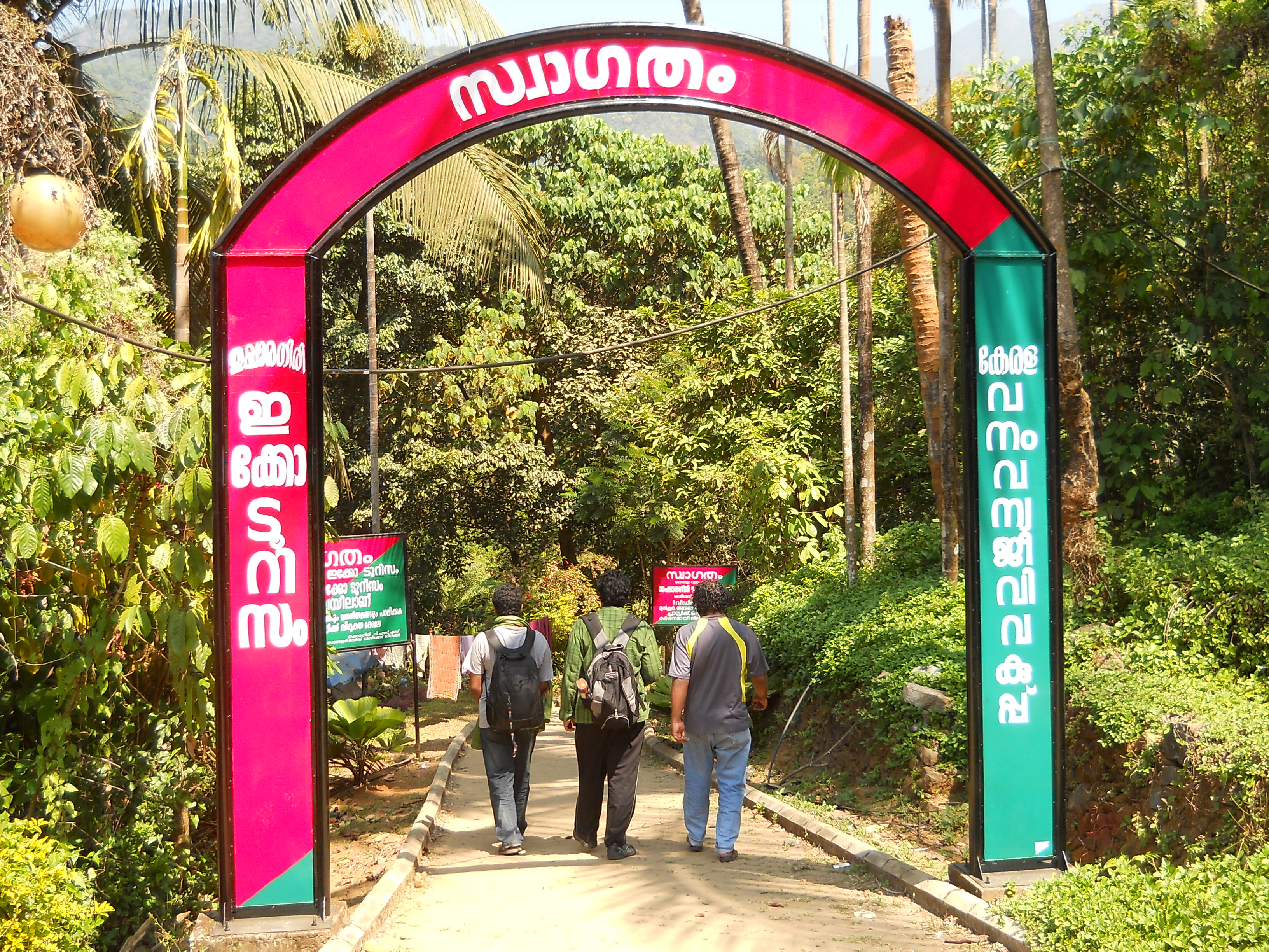 thusharagiri